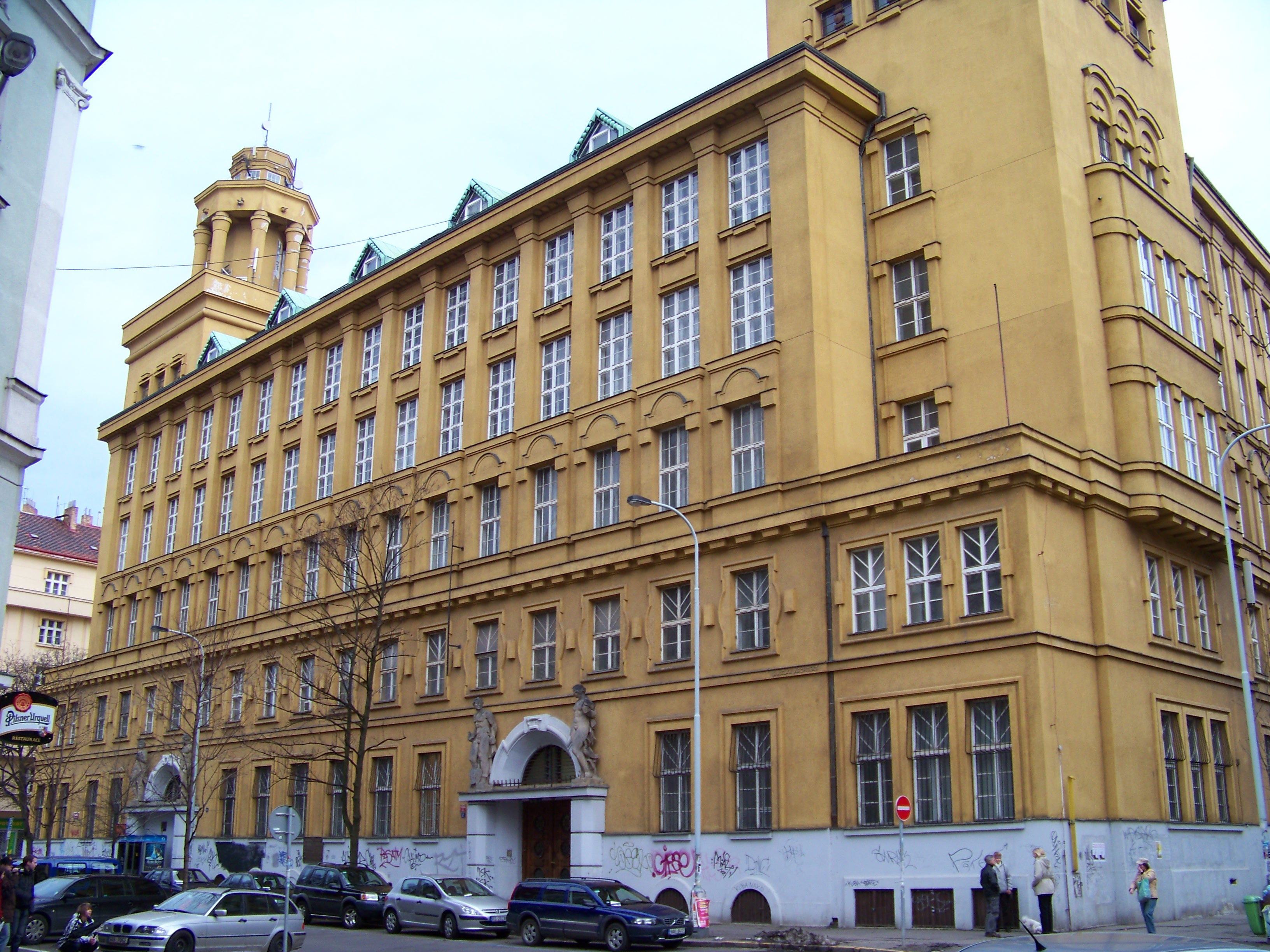 Žižkov, Prague, the Czech Republic. Fibichova Street, the Intercity Telephone Exchange. - Google Maps - Google Earth